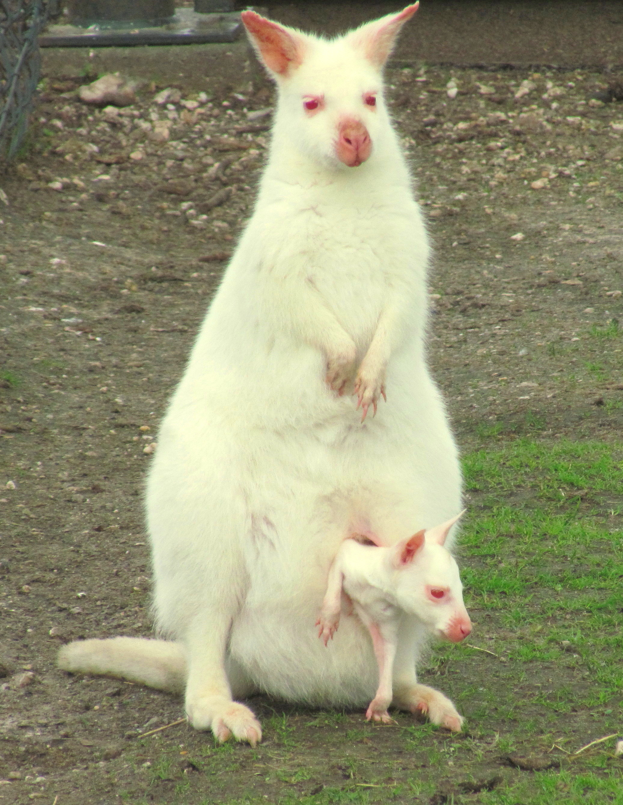 Albino Bennett's wallaby with joey in pouch at an animal breeding farm in Klarenbeek, the Netherlands